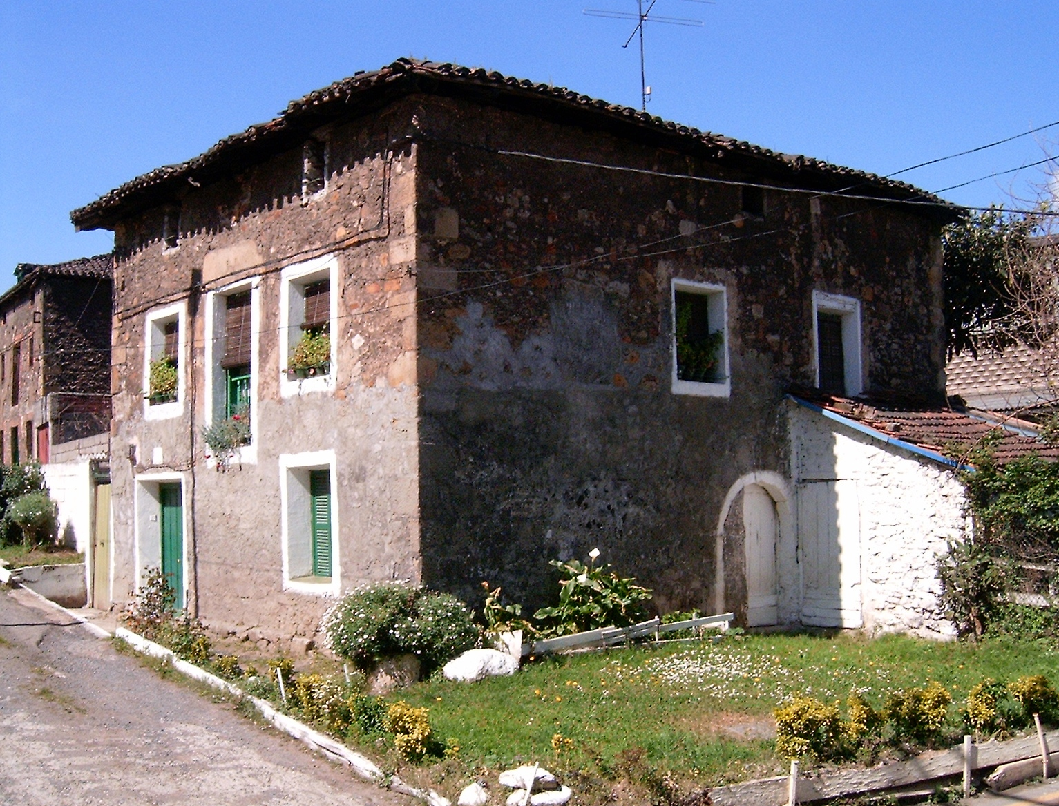 House in Beurco Viejo / Beurko Zarra, Barakaldo, Biscay, Spain. Part of the building, as the access arch, may be from the XVI century, though it has suffered severe transformations.